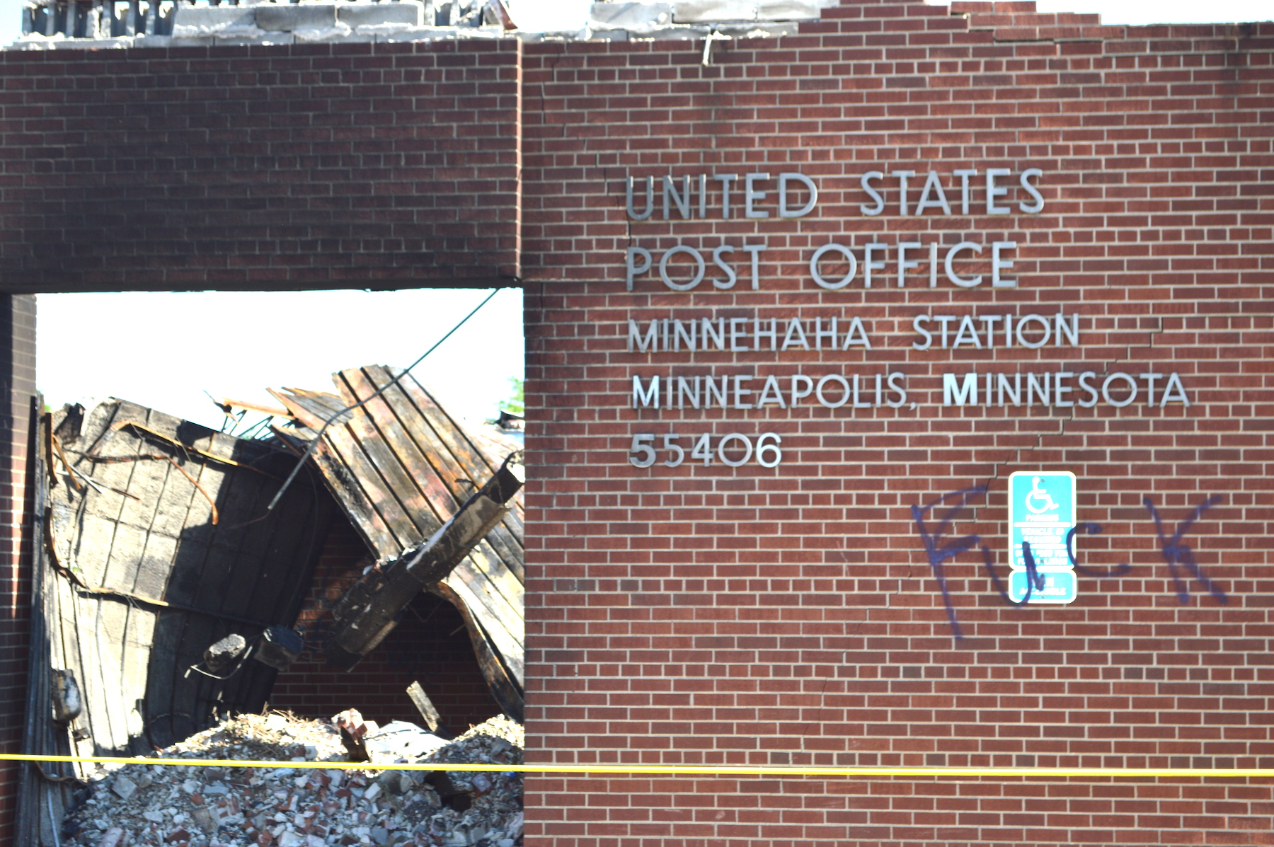 Minnehaha Post Office, George Floyd protest, Minneapolis, MN, June, 2020